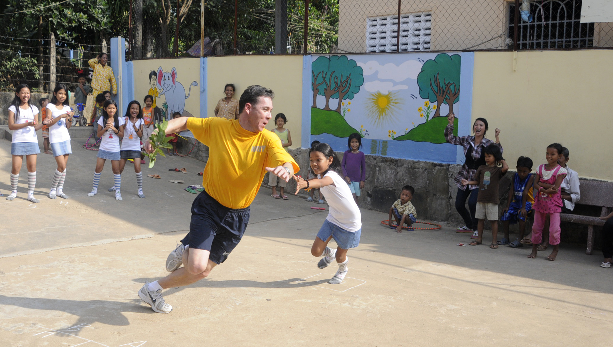 SIHANOUKVILLE, Cambodia (March 1, 2011) Chief Operations Specialist Steven Rowlands avoids a tag during a game of nap lungdy during a community service event at the Goodwill School. Sailors embarked aboard ships comprising Amphibious Squadron 11 and the Essex Amphibious Ready Group are participating in community service events during port visits coinciding with Maritime Exercise (MAREX) 2011. MAREX 11 is a theater security cooperation visit to enhance interoperability and improve the capabilities of the United States military and the Royal Cambodian Armed Forces. (U.S. Navy photo by Mass Communications Specialist 1st Class Johnie Hickmon/Released)